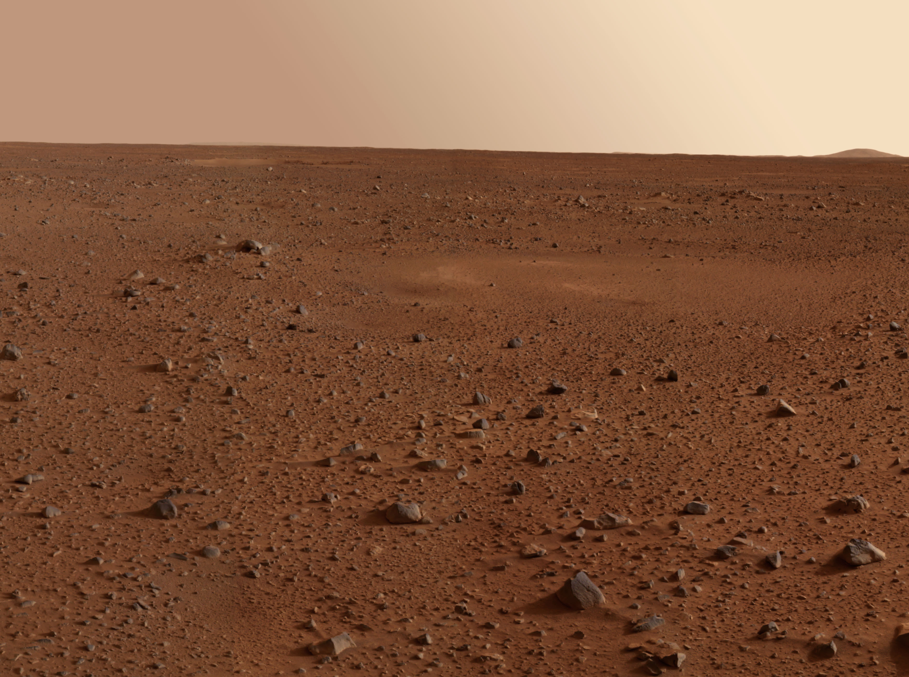 This full-resolution image taken by the panoramic camera onboard the Mars Exploration Rover Spirit before it rolled off the lander shows the rocky surface of Mars. Scientists are eager to begin examining the rocks because, unlike soil, these "little time capsules" hold memories of the ancient processes that formed them. Data from the camera's red, green and blue filters were combined to create this approximate true color picture.